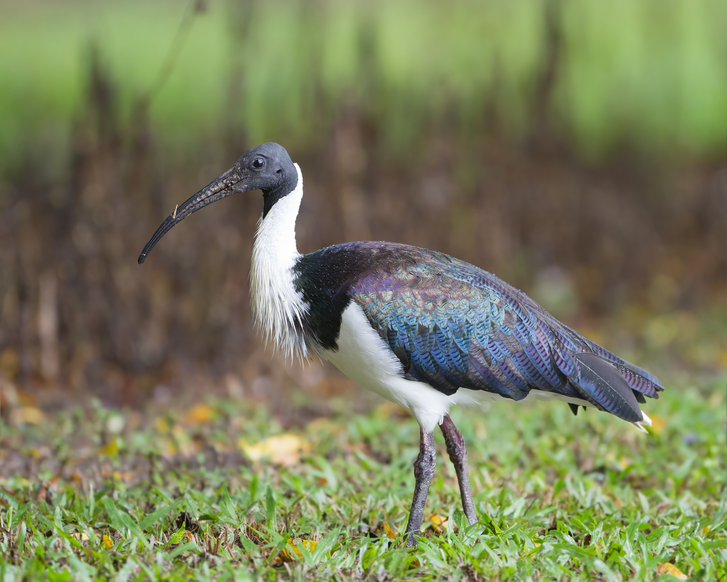 Straw-necked Ibis (Threskiornis spinicollis), Centenary Lakes, Cairns, Queensland, Australia